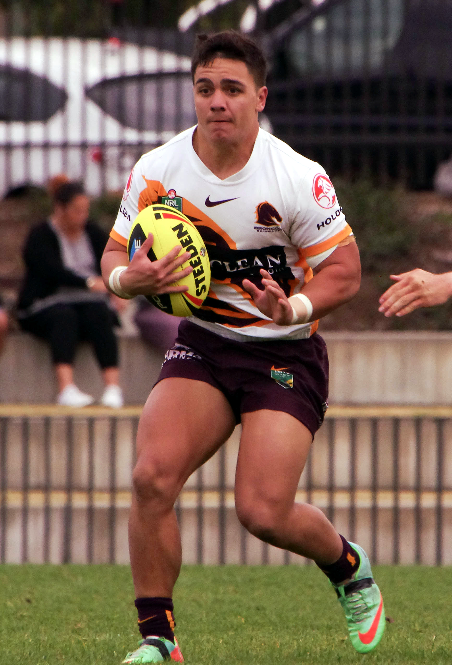 Kodi Nikorima